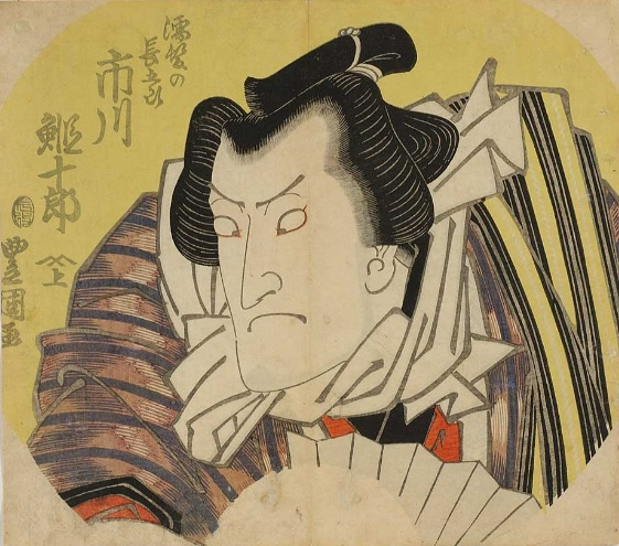 Toyokuni I, fan print of the actor Ichikawa Ebijūrō I, 1822